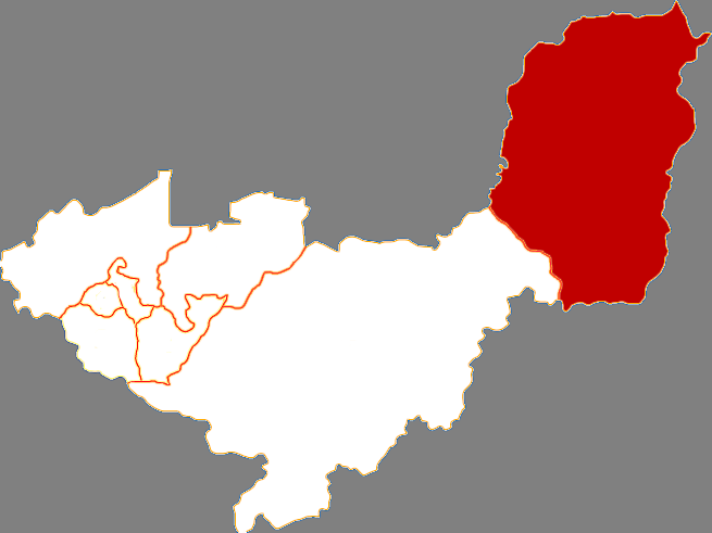 Location of Youyi Raohe in Shuangyashan City, China